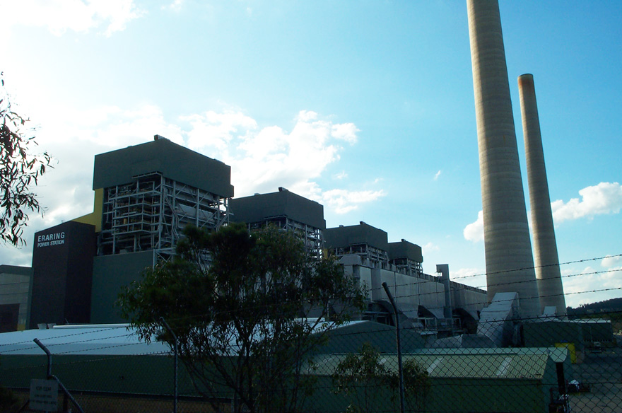 Eraring Power Station from side